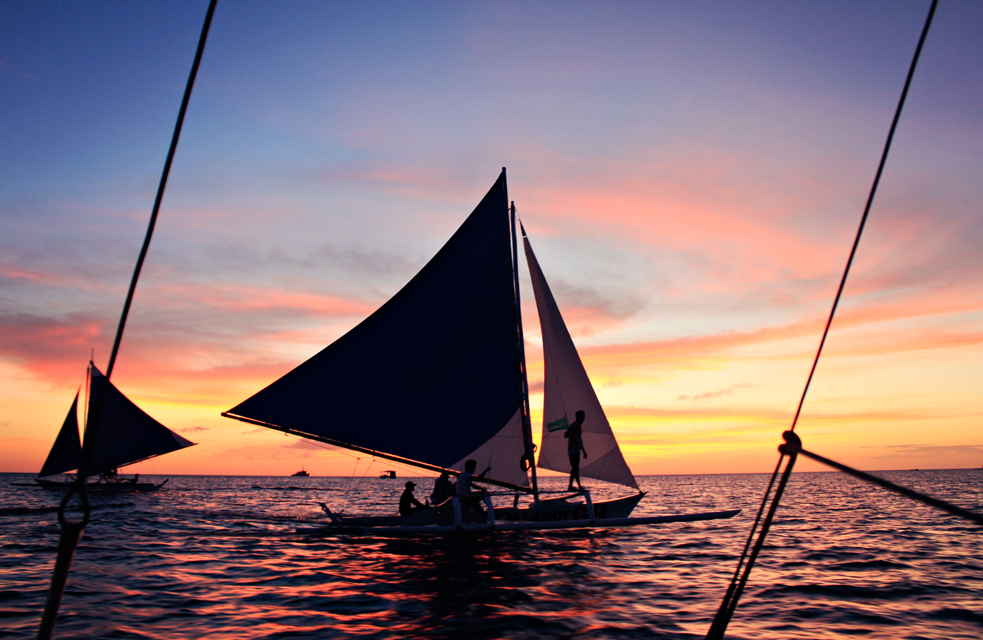 Boats on Boracay.